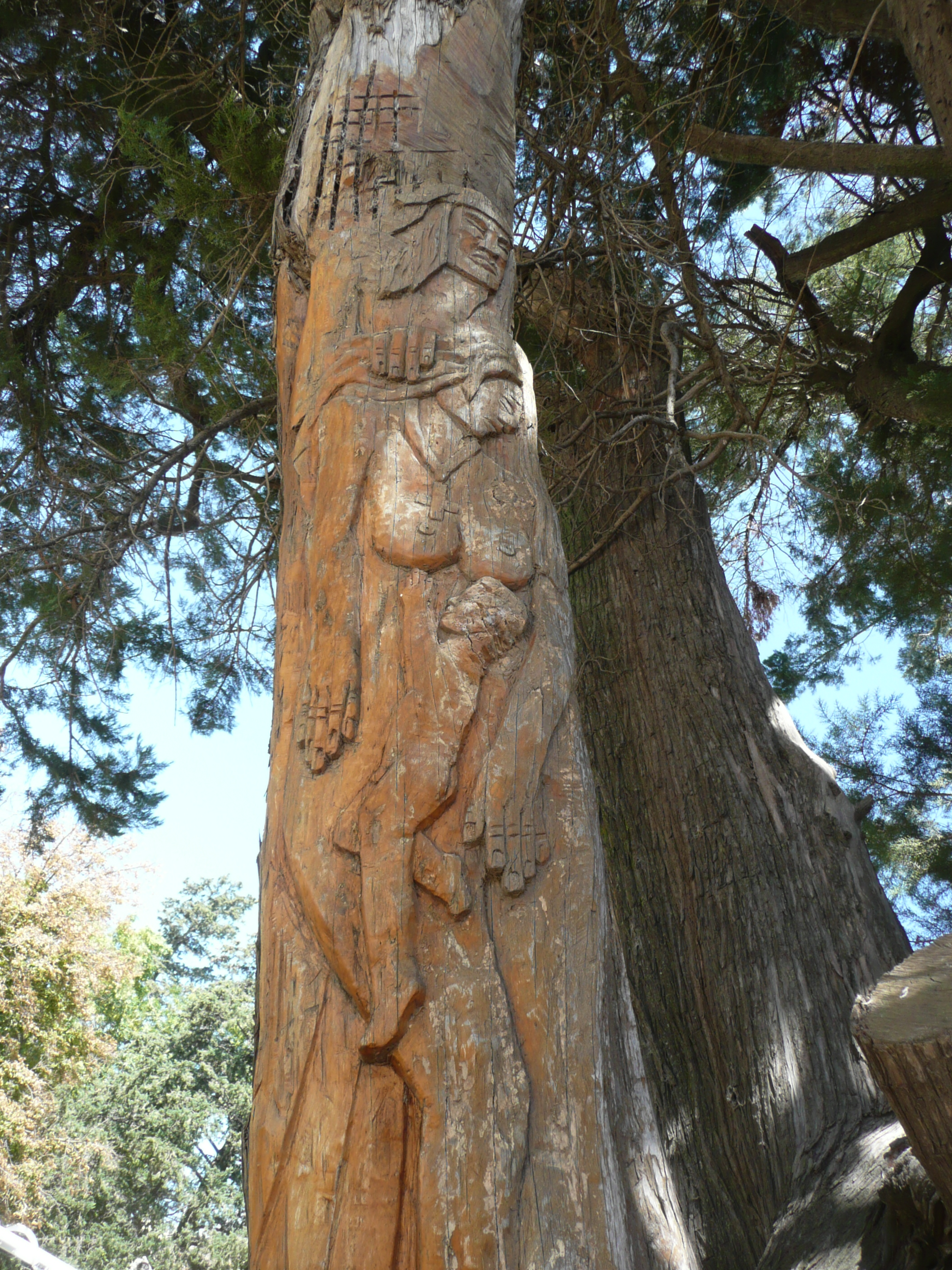 América (town), partido de Rivadavia, provincia de Buenos Aires, Argentina.